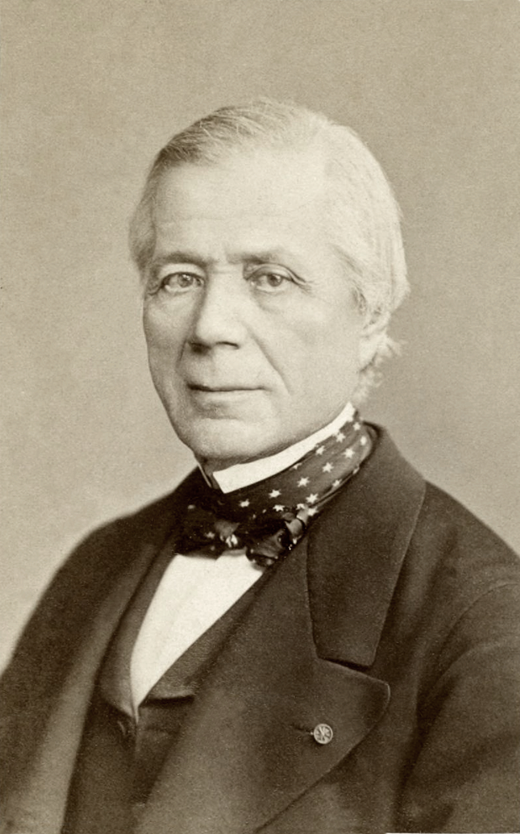 Xavier Marmier (1808 - 1892), French author and translator of North European languages litterature.